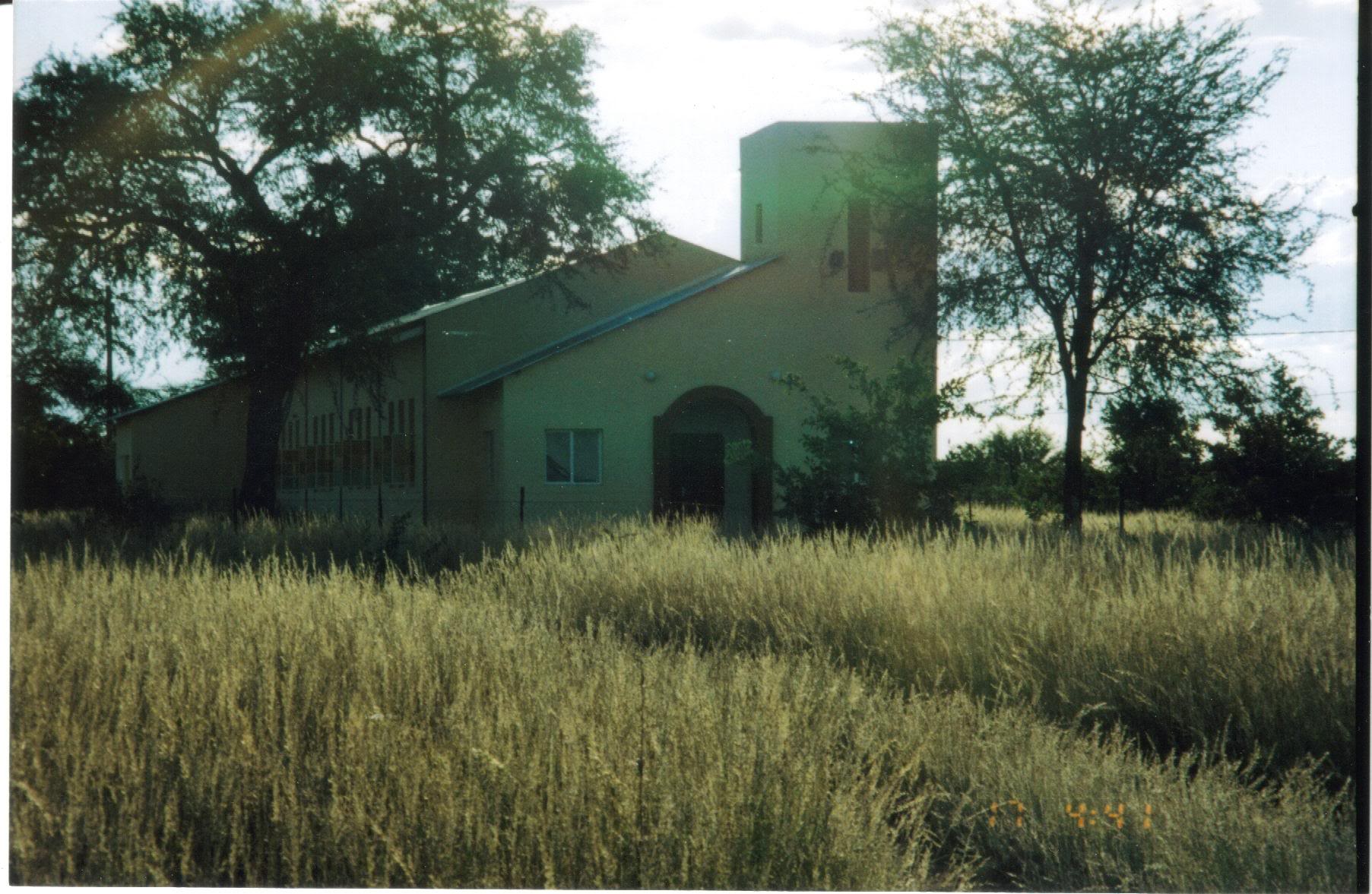 Tsintsabis Church